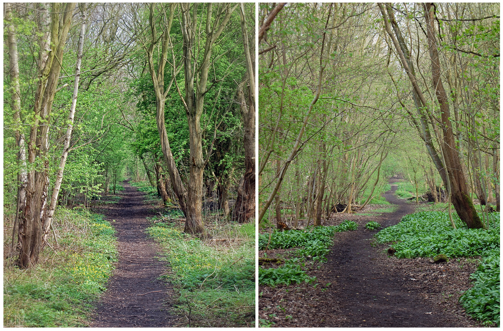 A footpath lined with trees marks the former railway line route to the west of Otley, Wharfedale; between what were the old Milnerwood and Burley Junctions closed during the Beeching Axe. You can find the original high resolution copy of the photograph online in this set of images.